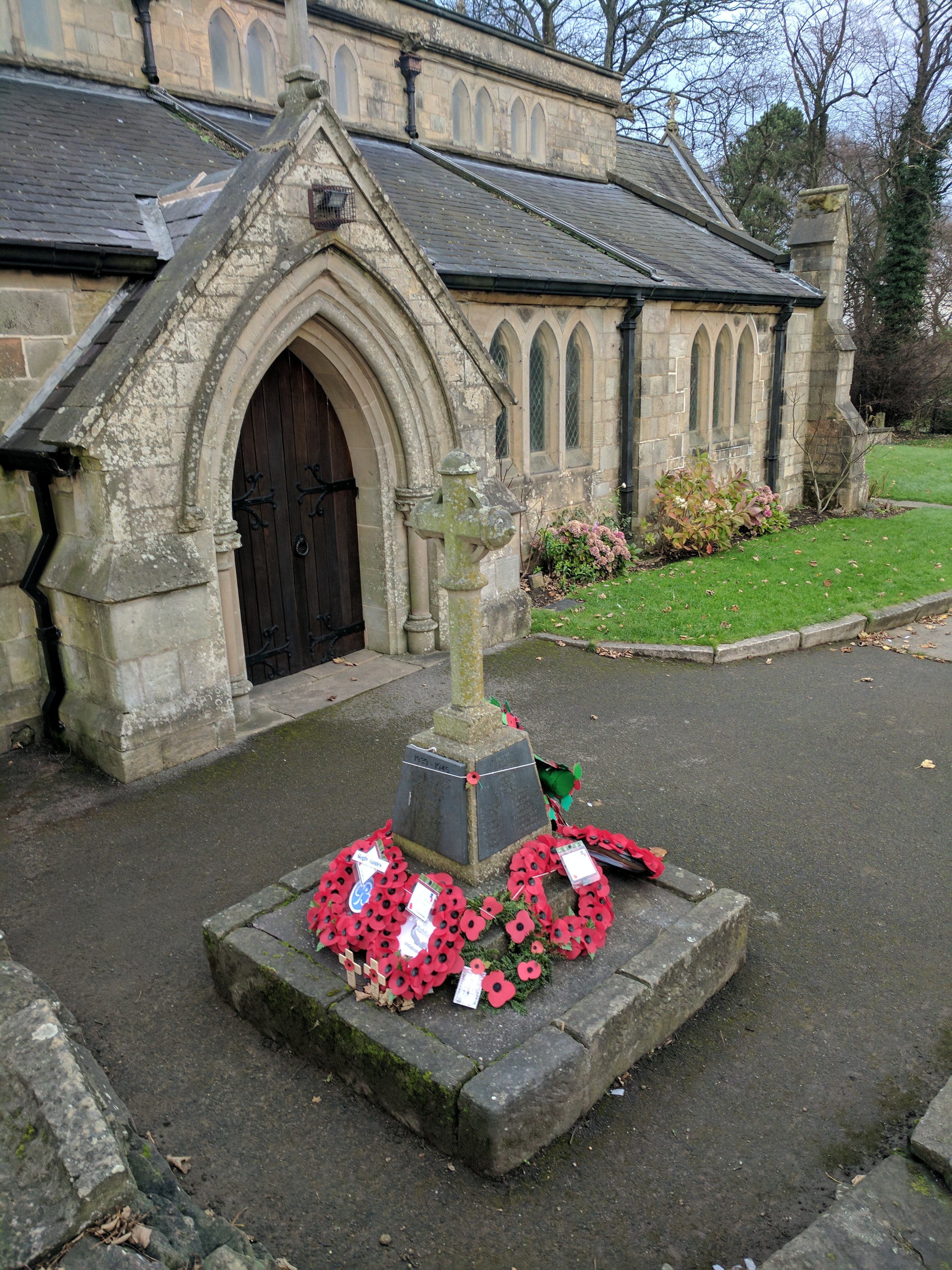 Skegby War Memorial, Near entrance to St Andrews Church, Mansfield Road, Skegby Wikidata has entry Q26677721 with data related to this item.